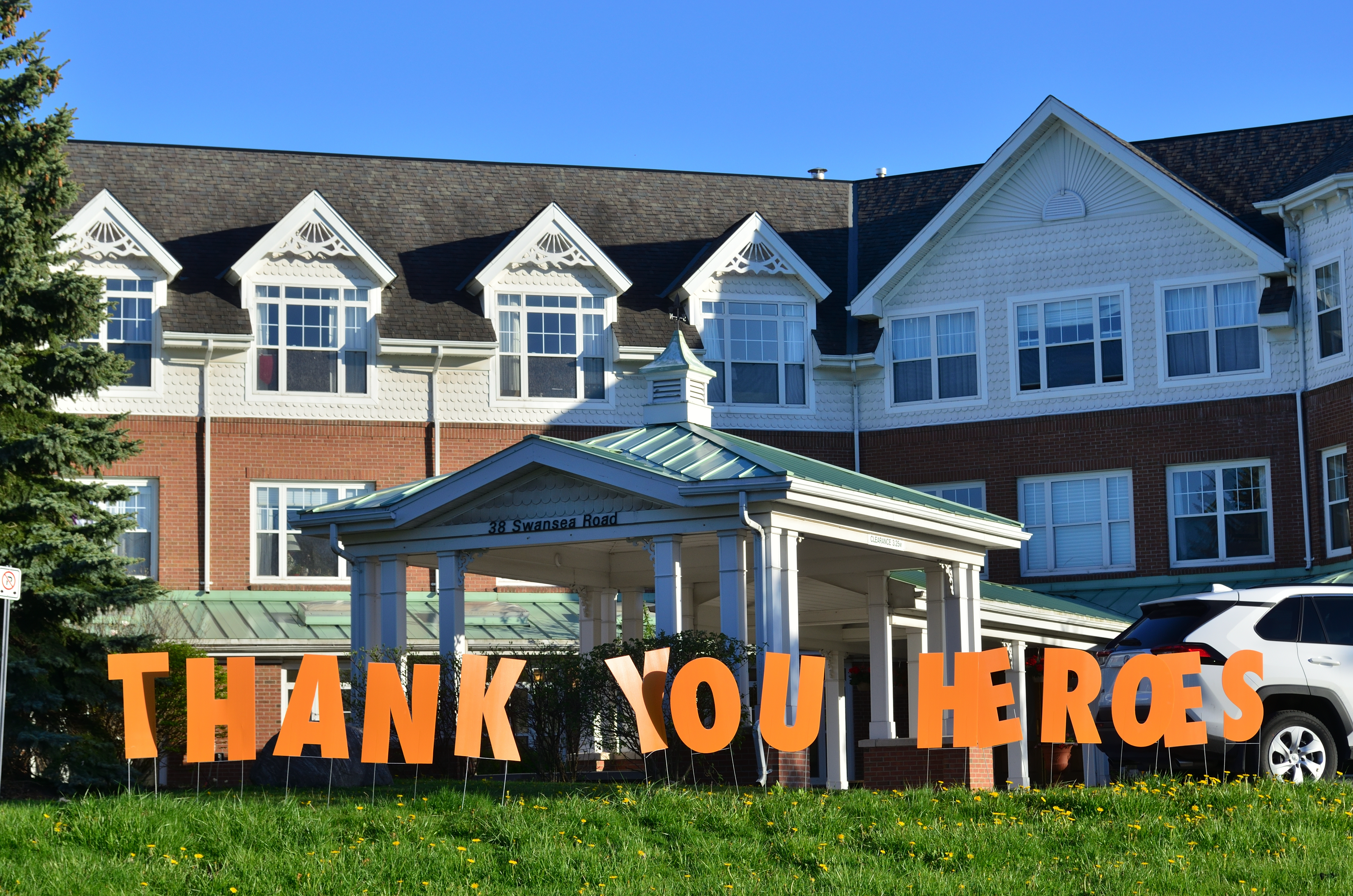 "Thank You Heros" sign at Sunrise of Unionville